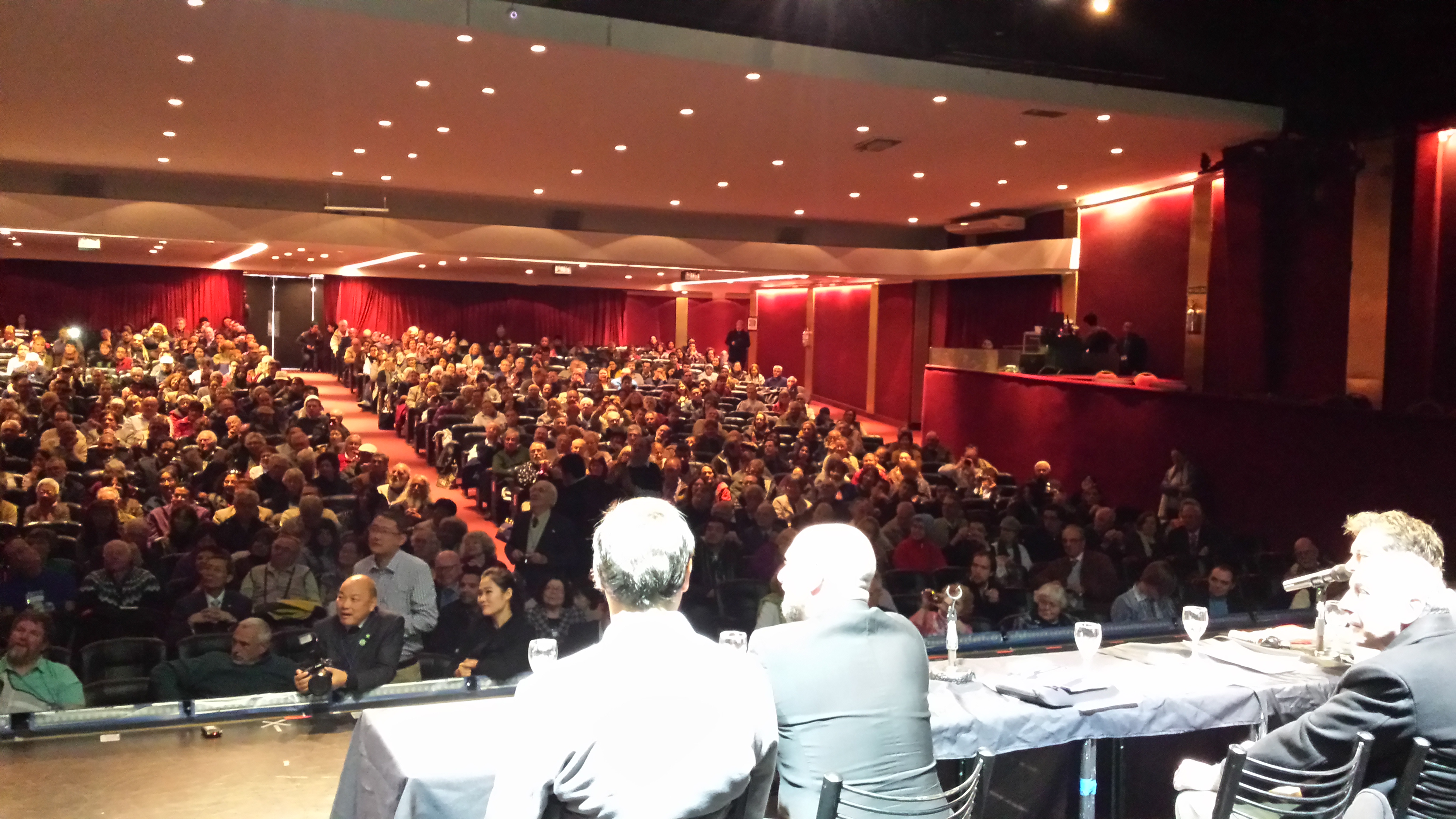 Inauguration of the 99th World Esperanto Congress, Argentine